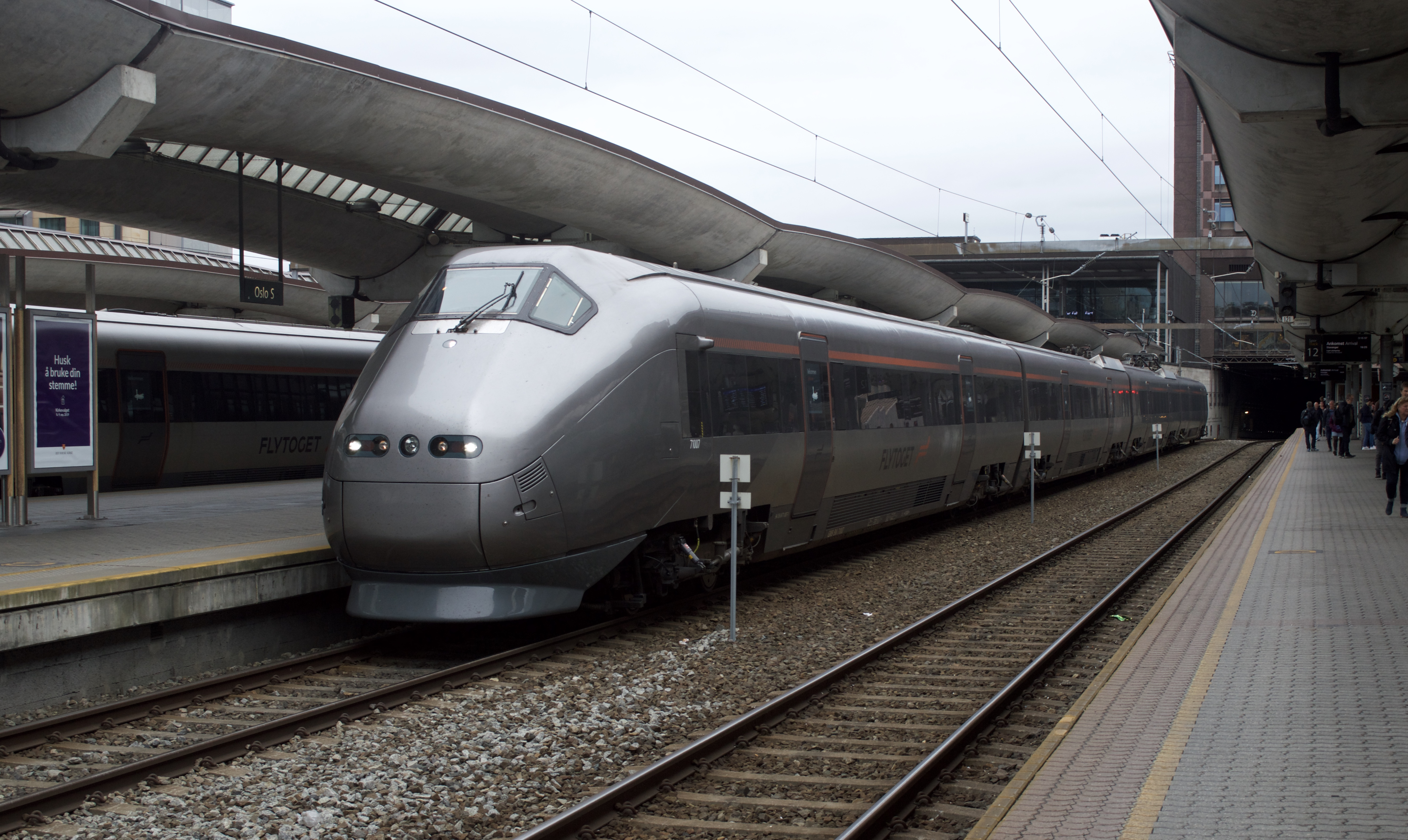 With the opening up of the rail link to Oslo's Gardermoen Airport in the late 1990s along with the 14.5 km long Romerike tunnel from Oslo Sentral to Lillestrøm, Flytoget AS were awarded the contract to run services connecting station to the west of Oslo, through the City centre and to the airport. Running 6 trains an hour, 5 originating at Drammen or Stabekk with one further one at Oslo Sentral itself. Charging a premium fare at almost double that on the regular Vy local or regional service which takes no more than 5 minutes longer. Flytoget operate a fleet of 16 x BM71 4-car sets. Seen at Oslo Central on 9 September 2019, set 71007 forms train 3769, 15:22 Drammen to Oslo Lufthavn.